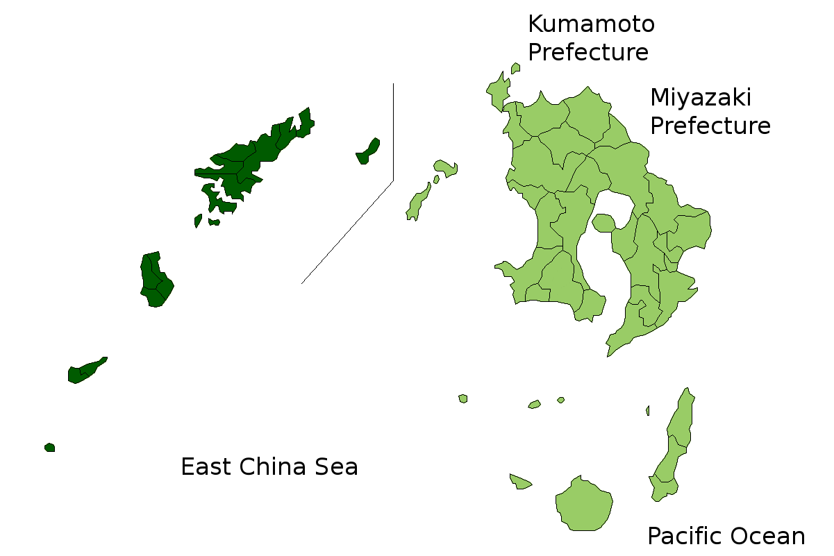 Location Map of Oshima Subprefecture in Kagoshima Prefecture, Japan